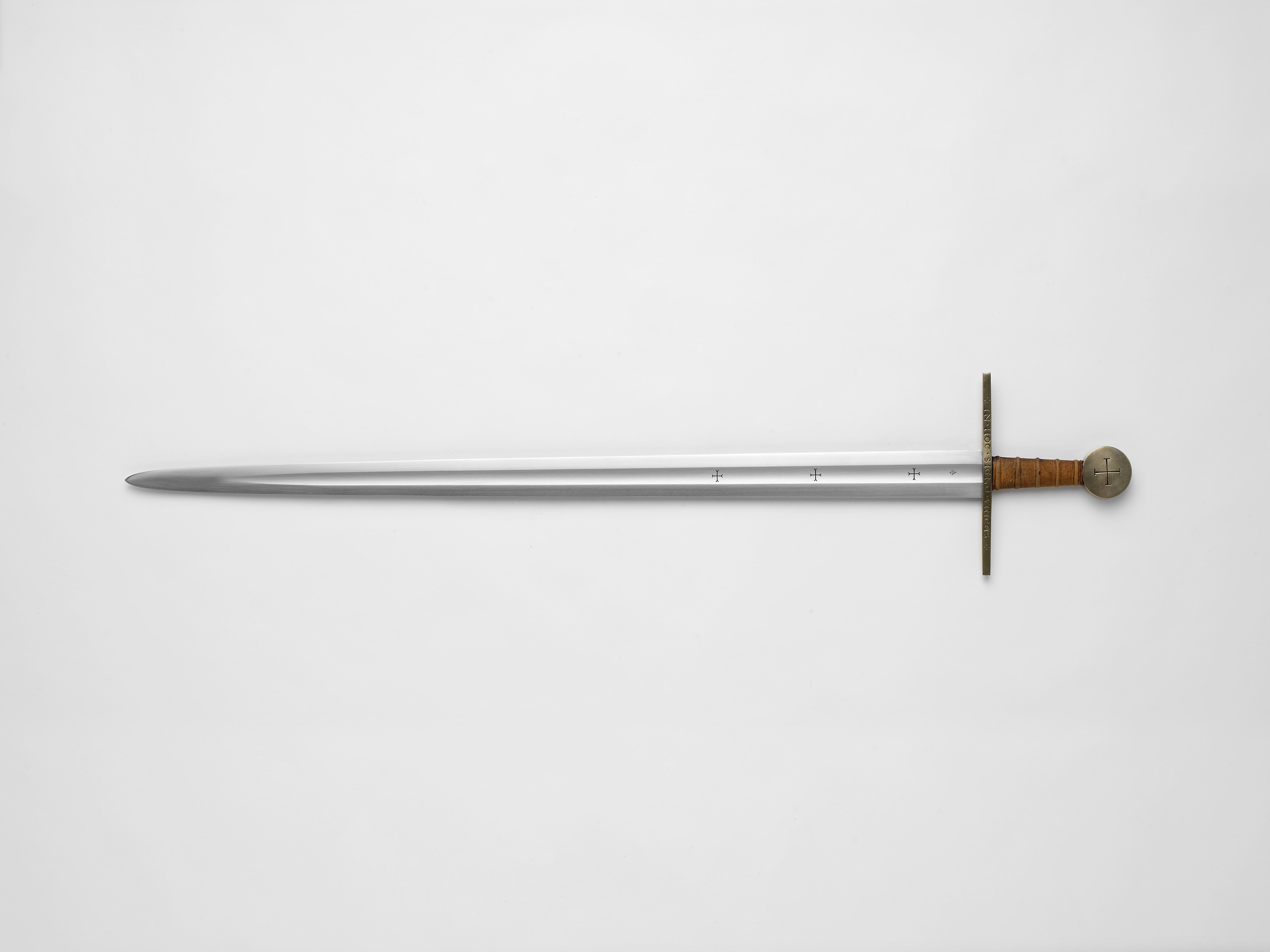 Albion_Arn_Film_Sword_01